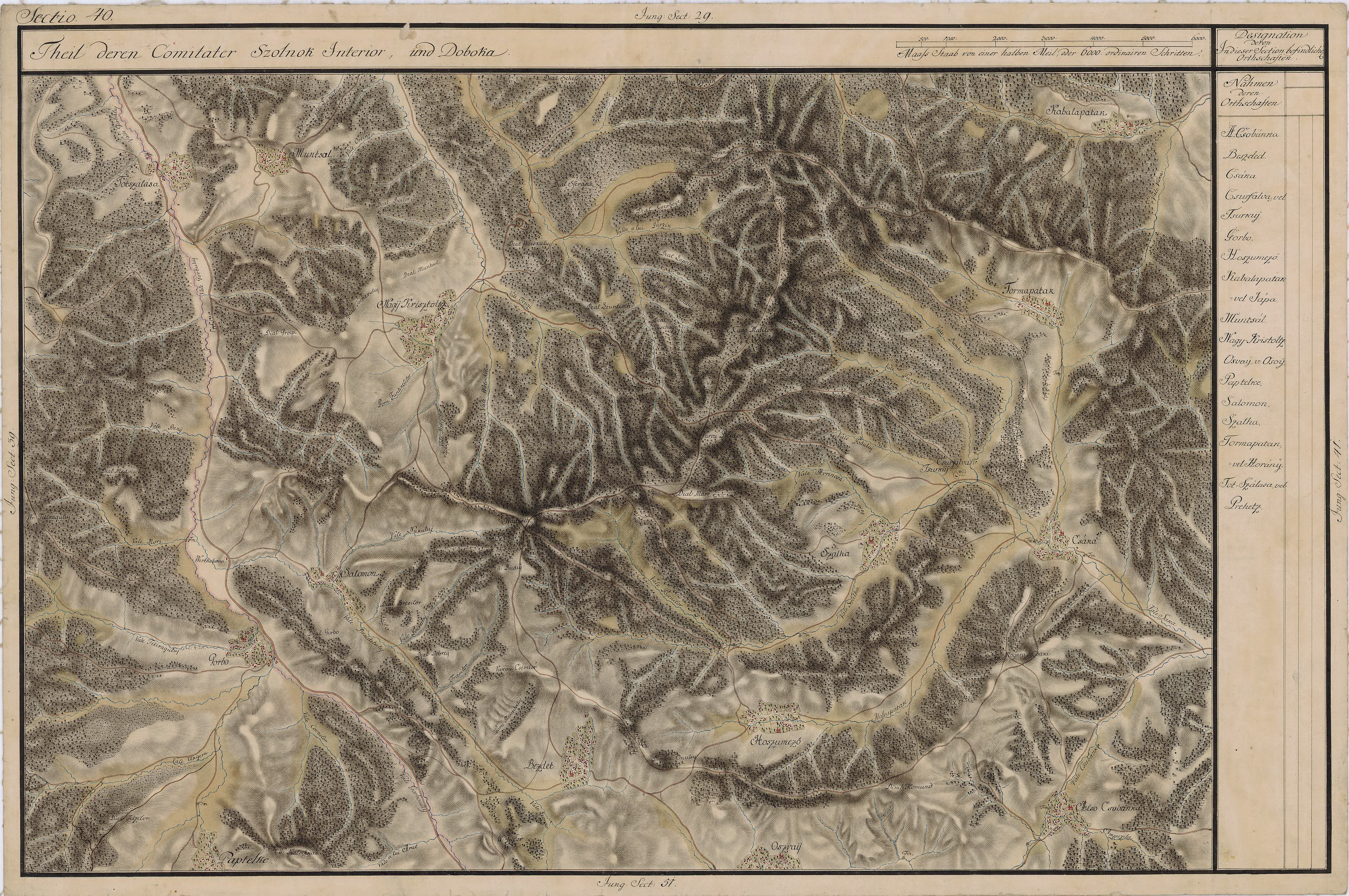 Grand Duchy of Transylvania, 1769-1773. Josephinische Landaufnahme pg.040